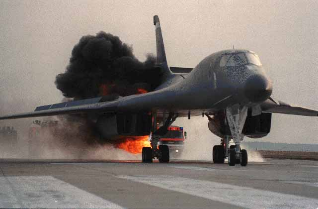 A Rockwell B-1B after an emergency landing